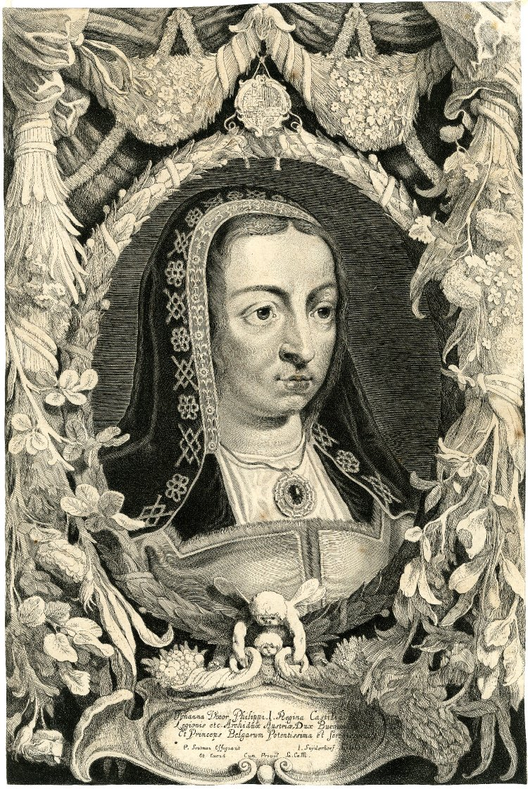 Duces Burgundiae; Johanna Uxor...print; Pieter Soutman (After); Pieter Soutman (Print made by); Pieter Soutman (Published by); Jon...; Plate 7: Joanna the Mad. Portrait of the queen Date